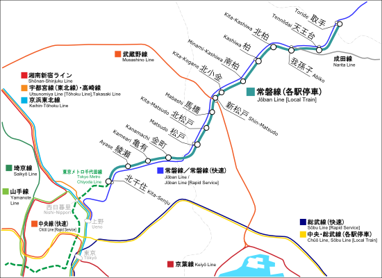 Map of Joban Local Line